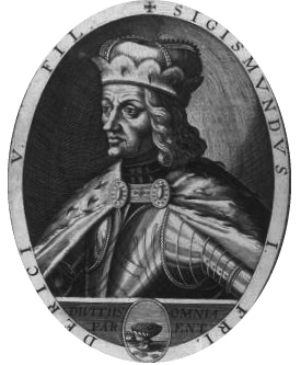 Title: Sigismund of Austria Technique: Copper-plate engrawing Dimensions: Country of origin: German Current location (city): Wien Current location (gallery): Österreichischen Nationalbibliothek